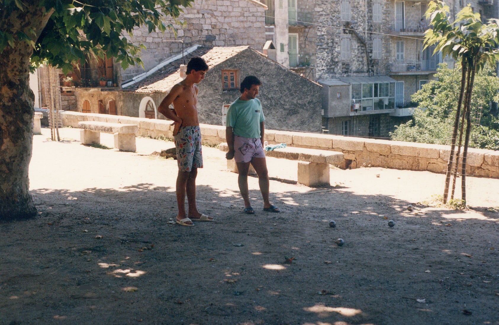 Boule in the shade